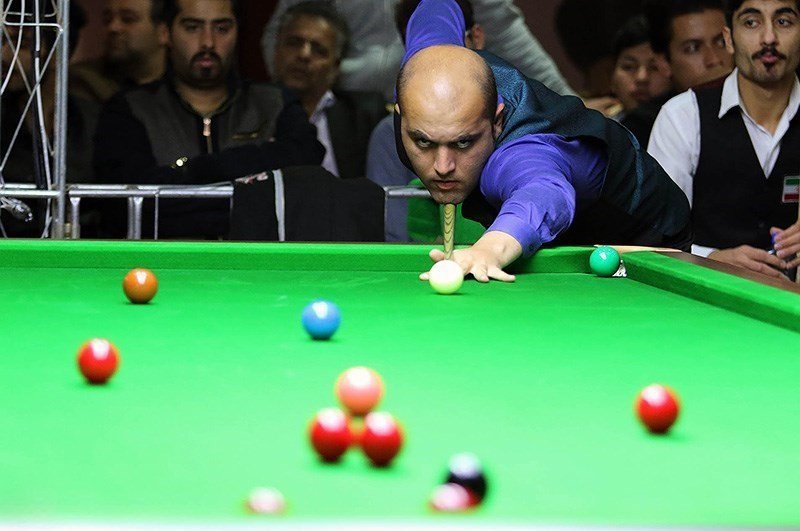 Iran’s Sarkhosh Wins Gold at Asian Billiards Sports C’ship